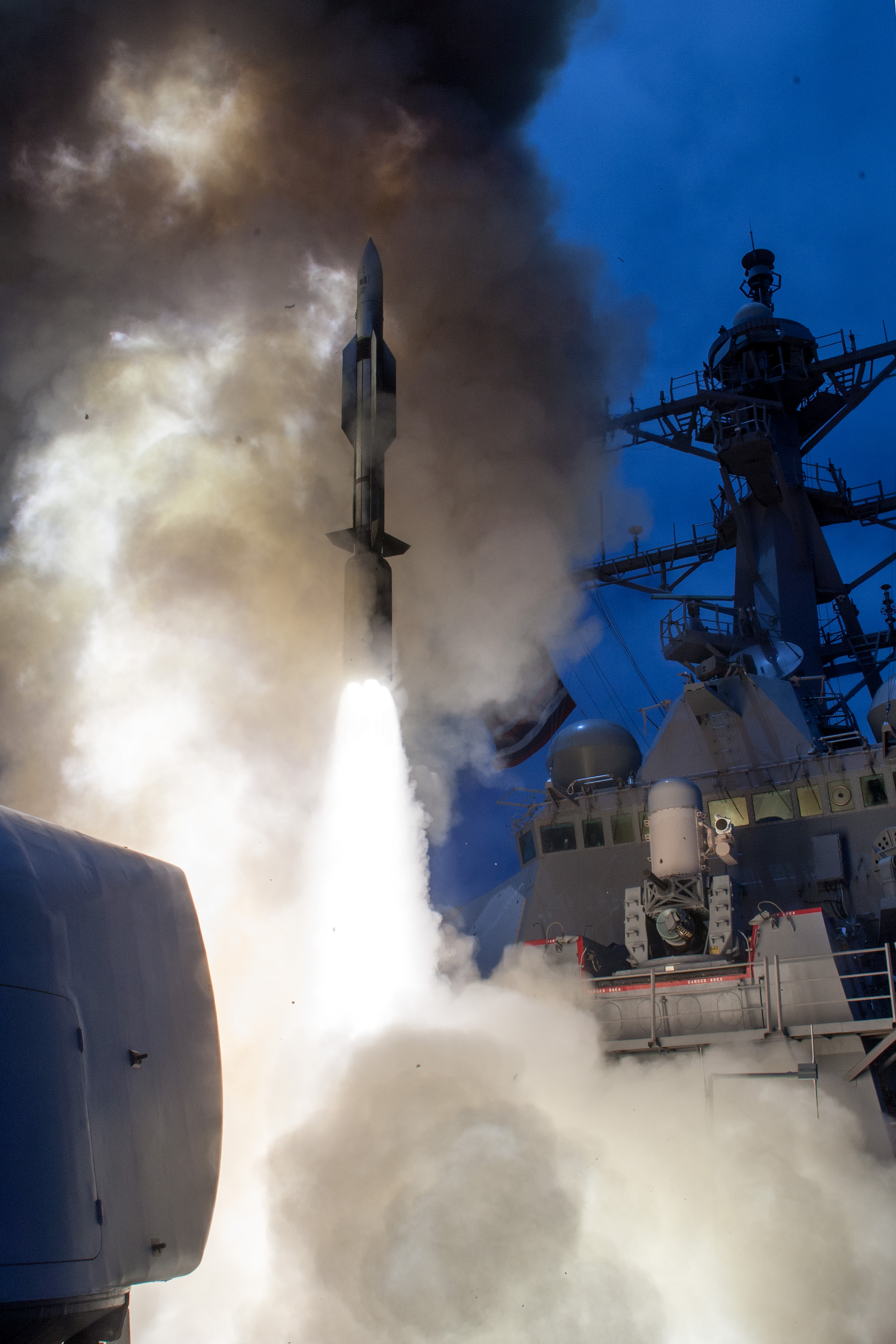 The U.S. Navy Arleigh-Burke class guided-missile destroyer USS John Paul Jones (DDG-53) launches a RIM-174 Standard ERAM (Standard Missile-6, SM-6) during a live-fire test of the ship's Aegis weapons system in the Pacific Ocean. Over the course of three days, the crew of John Paul Jones successfully engaged six targets, firing a total of five missiles that included four SM-6 models and one Standard Missile-2 (SM-2) model.